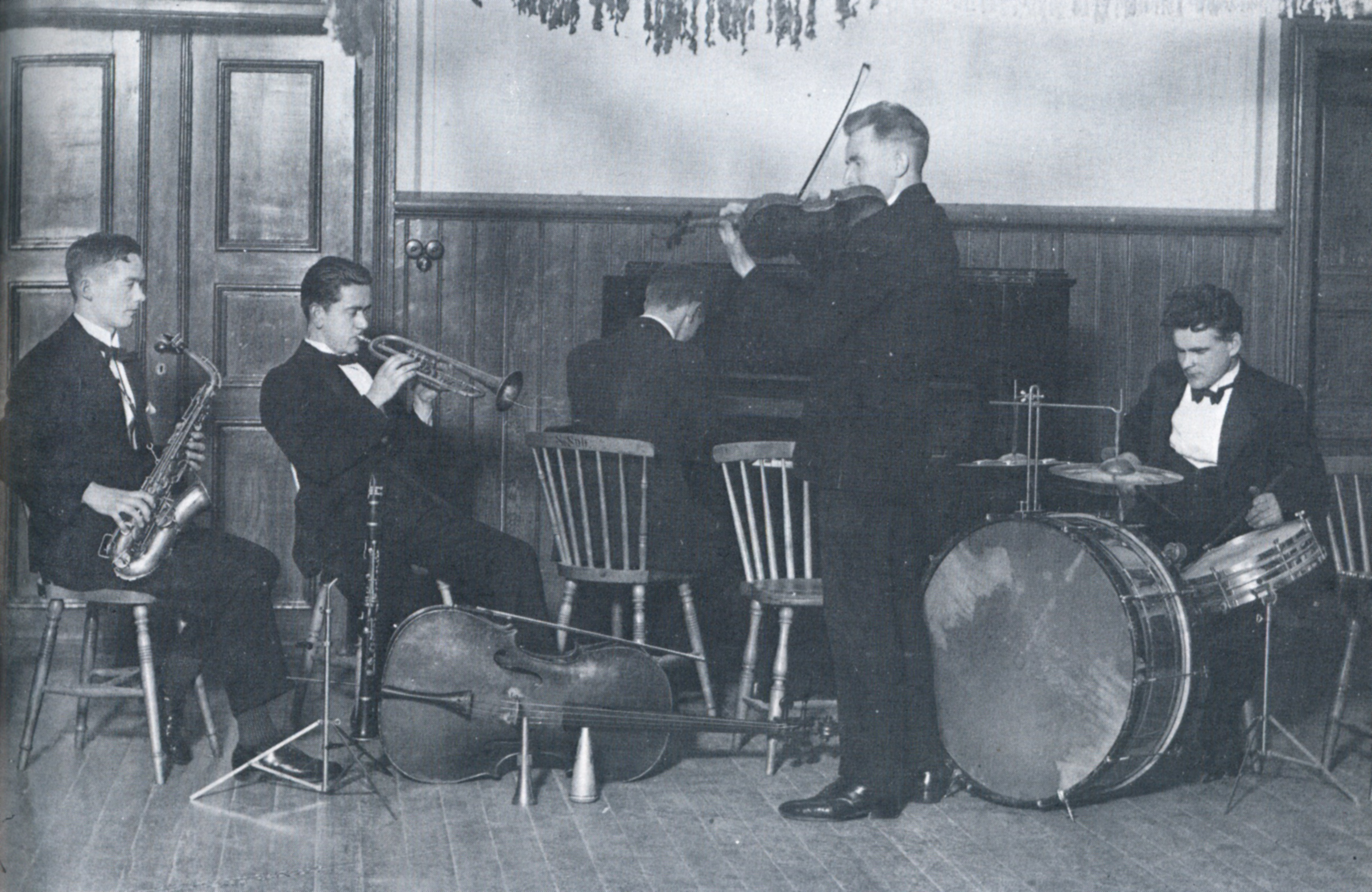 The Da Capo Quintet, Sandnes, Norway around 1930. Musicians from left to right: Kr. Rostrup, Olav Oftedal, Finn Audun Oftedal, Peder Haar, Harald Tjølsen